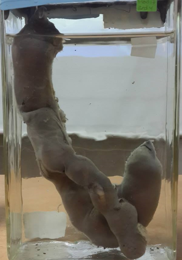 Meckel's diverticulum